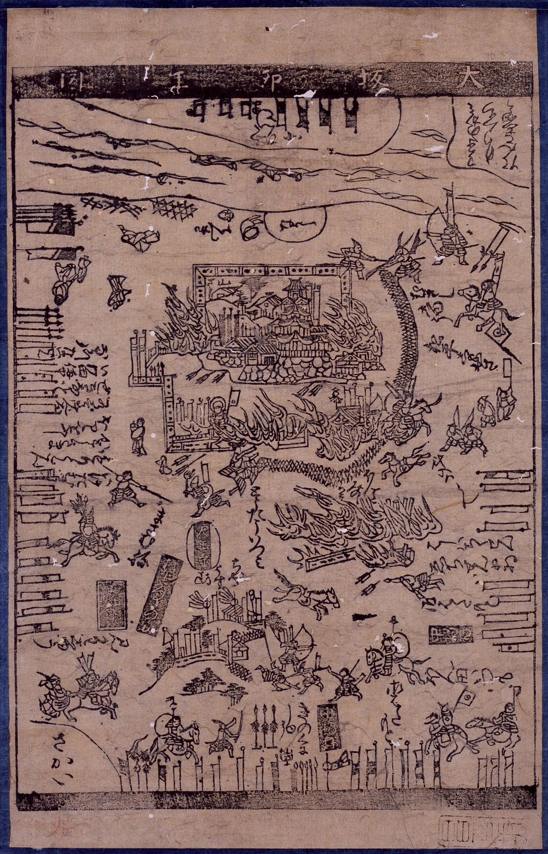 A commercial newssheet of Edo period sold to report the fall of Osaka Castle in Summer Battle of Osaka in May, 1st year of Genna (1615). This newssheet is said first "Kawaraban" in Edo era.